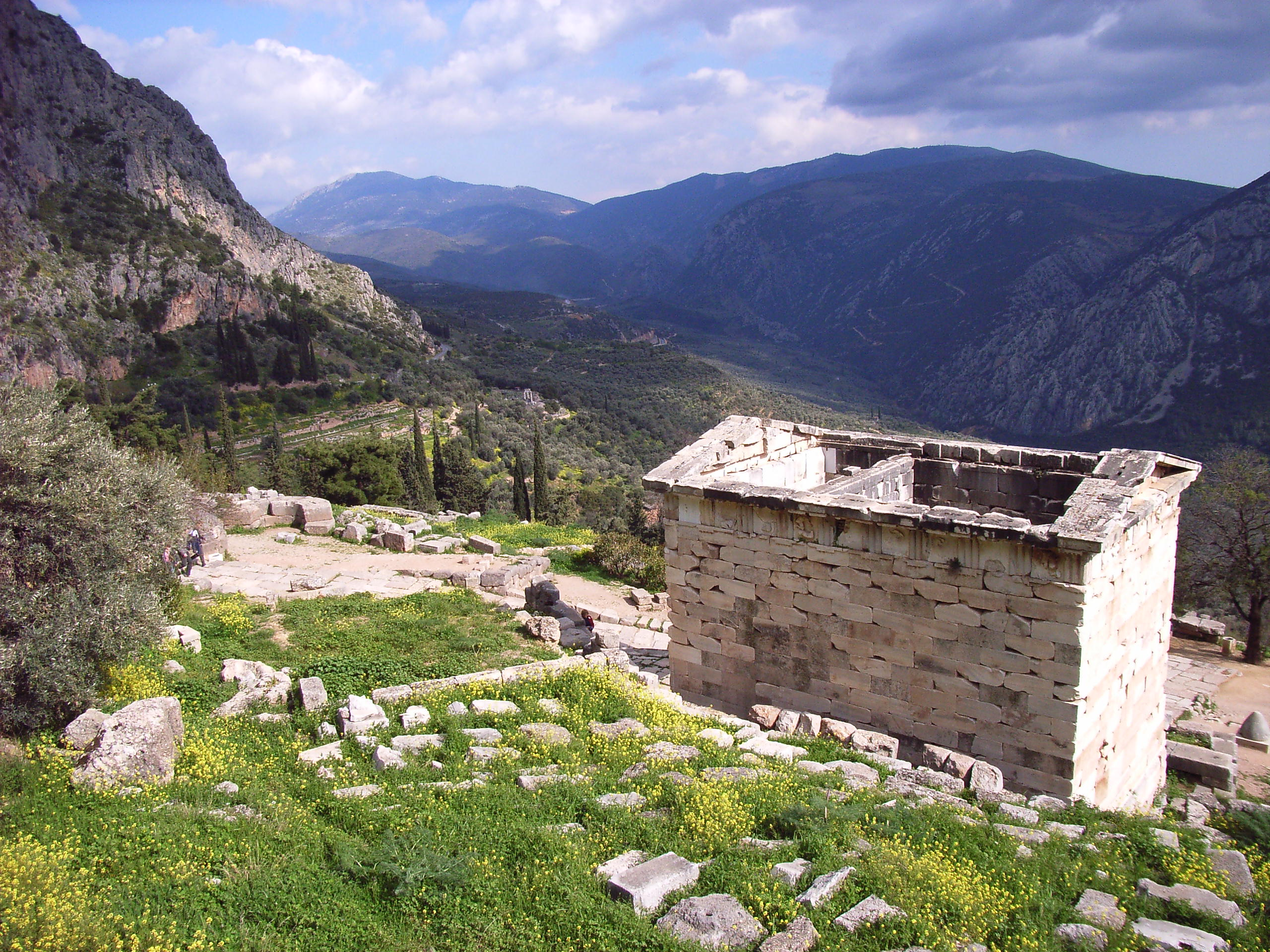 Built to commemorate the Athenians' victory at the Battle of Marathon (around 490 BC)